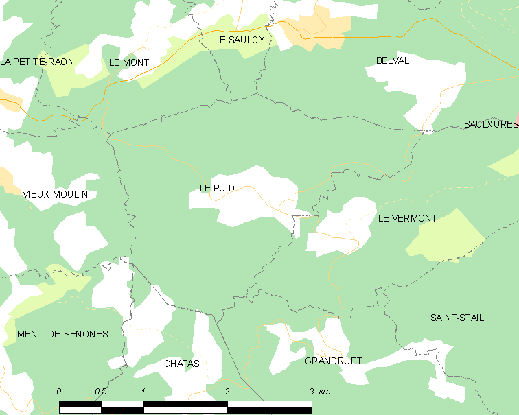 Map of French municipality Le Puid